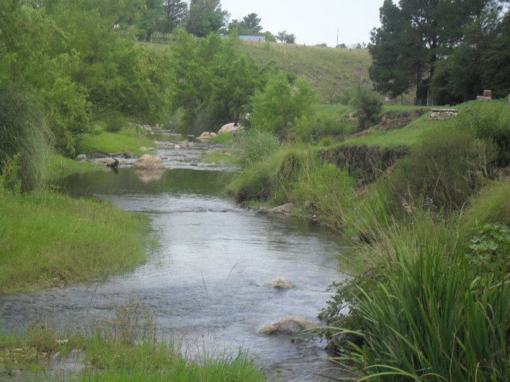 San Pedro River as it passes through Potrero de Garay